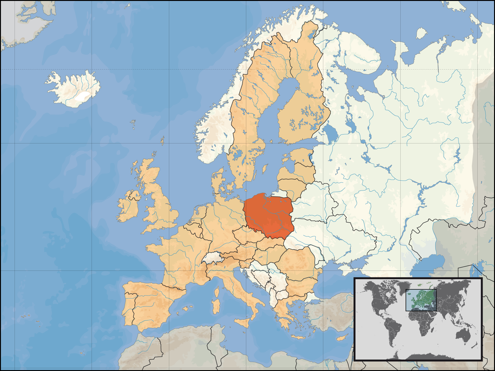 Location of Poland within Europe and the European Union on the 1st of January 2007.